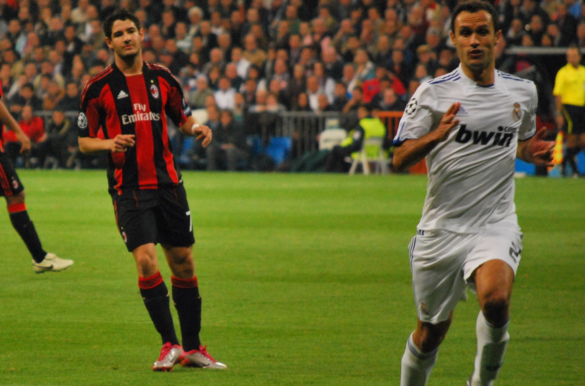 Pato and Ricardo Carvalho during Real Madrid CF-AC Milan, 2010–11 UEFA Champions League